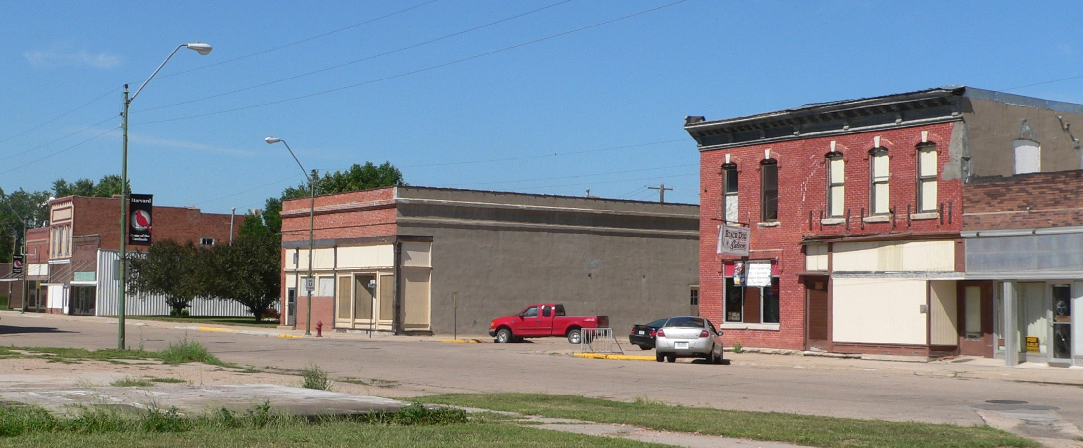 Downtown Harvard, Nebraska: east side of Clay Avenue, looking northeast from south of Oak Street.